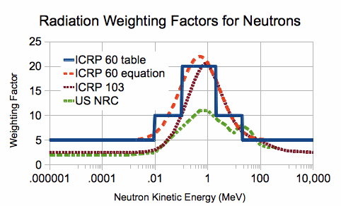 Graph of radiation weighting factors for neutrons as a function of kinetic energy, according to ICRP 60, ICRP 103 and the US NRC regulations. References: (1991). "1990 Recommendations of the International Commission on Radiological Protection". Annals of the ICRP 21 (1-3). Retrieved on 17 May 2012. (2007). "The 2007 Recommendations of the International Commission on Radiological Protection". Annals of the ICRP 37 (2-4). Retrieved on 17 May 2012. "Units of Radiation Dose" in (2009) 10 CFR 20.1004, US Nuclear Regulatory Commission